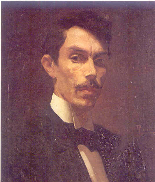 Self-potrait,_Geogios_Roilos